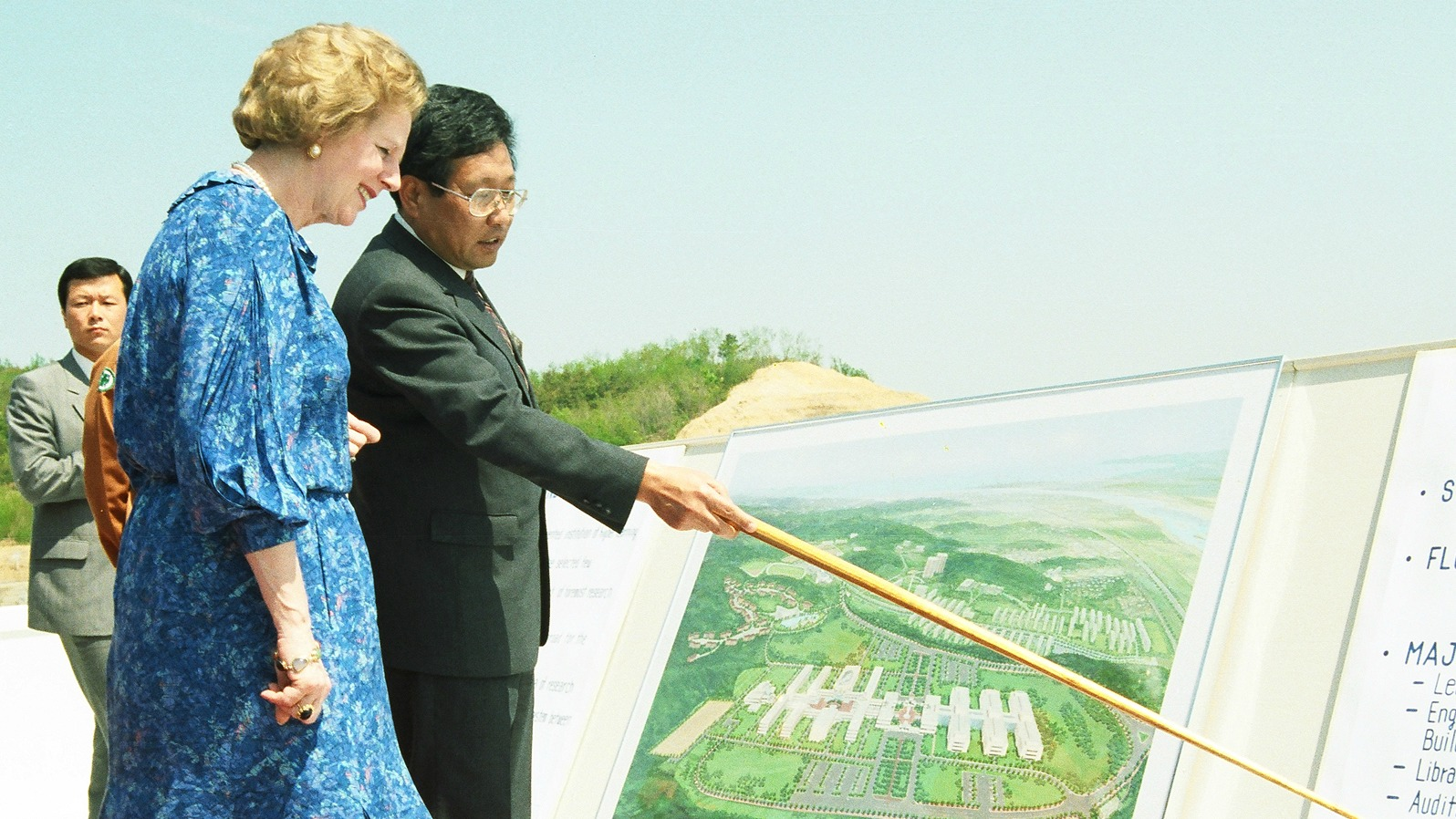 British prime minister Margaret Thatcher visits POSTECH in May 1986.